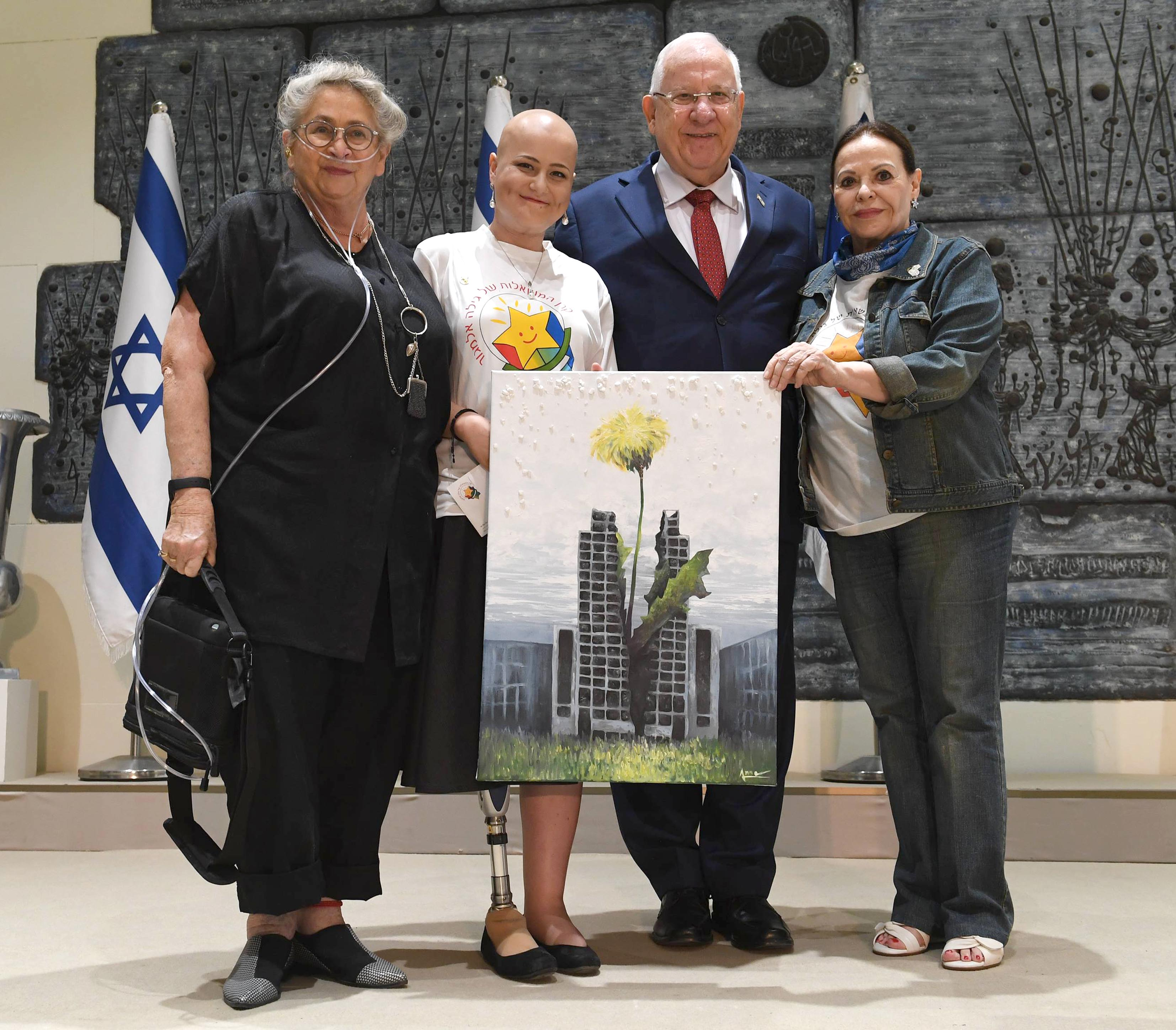 The President of Israel, Reuven Rivlin, and his wife host Gila Almagor's Wish Fund. Sunday, September 10, 2017. Photo Credit: Mark Neyman / GPO.